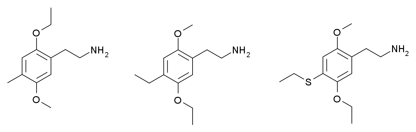 Structures of some representative "tweetio" compounds